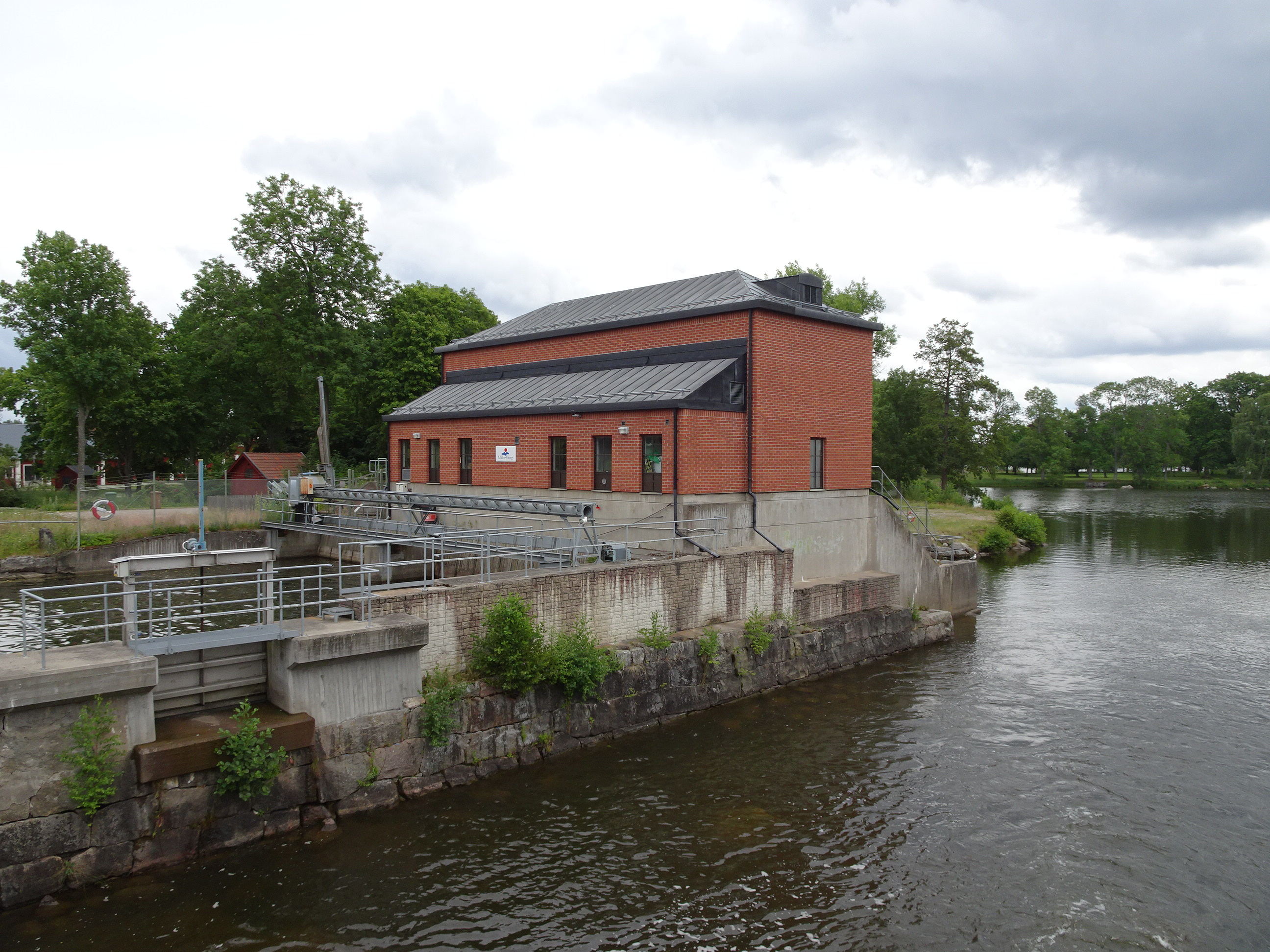 Virsbo hydroelectric power station in the river Kolbäcksån, in Virsbo in Sweden.